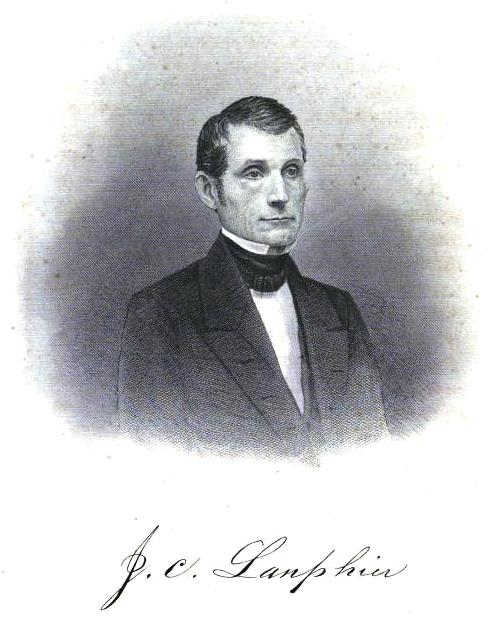 Jeremiah Lanphier, lay missionary in New York City, popularly believed to have instigated a religious revival that began in the United States in 1857.